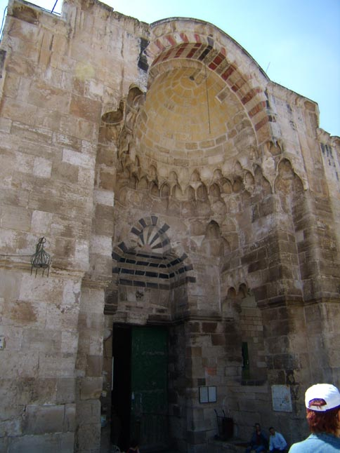 Cotton merchant gate